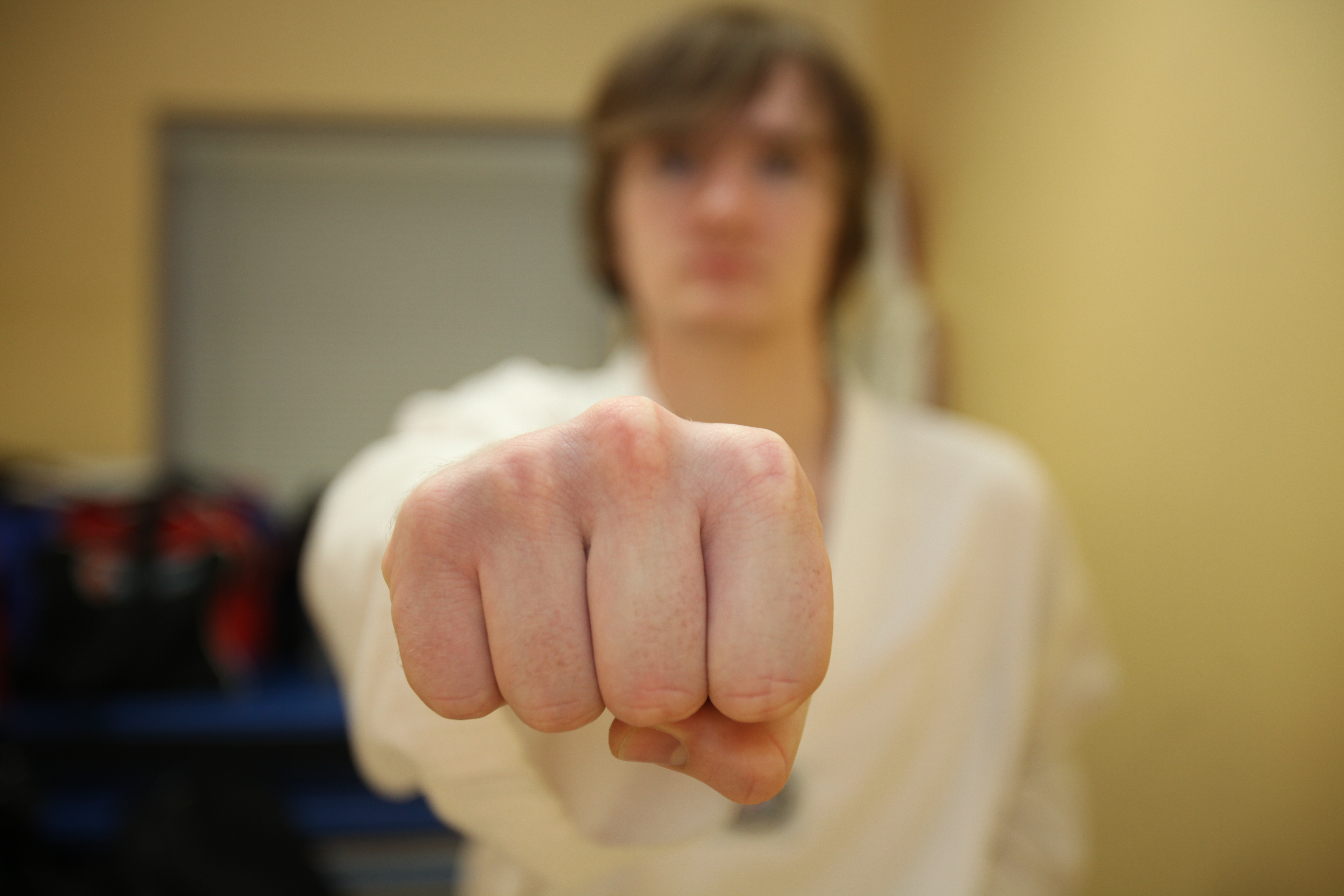 Tae kwon do courses are available for MCAS Cherry Point children and personnel. Serene A. Monk enrolled her son, Brandon, so he could learn discipline and self control. Serene said it’s the best thing she ever did for him.